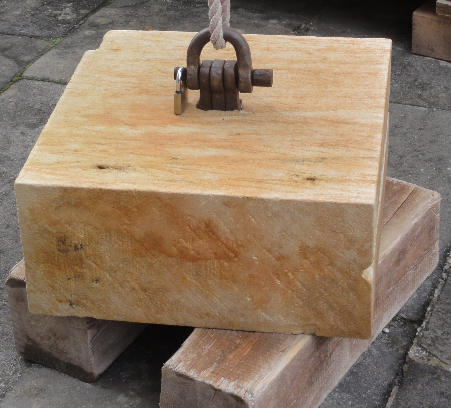 Stone liftig tool "Wolf", picture taken in front of Bamberg cathedral, germany